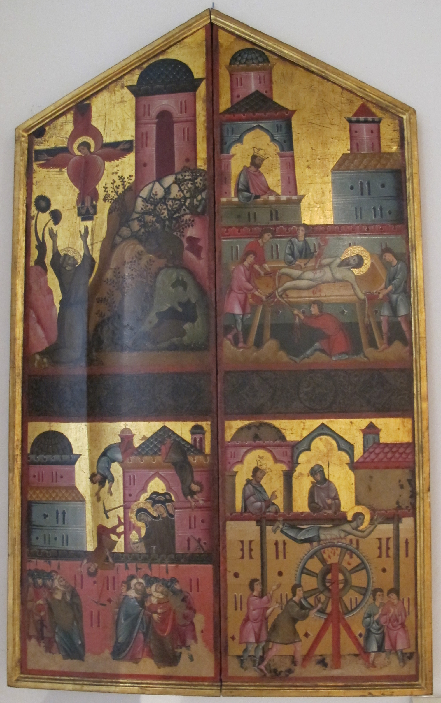 Painting in the National Pinacotheque, Siena